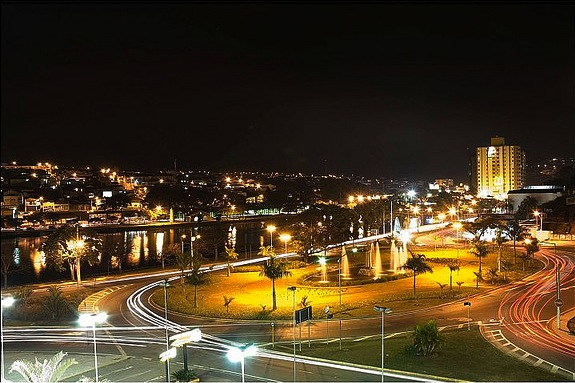 Bragança Paulista at night